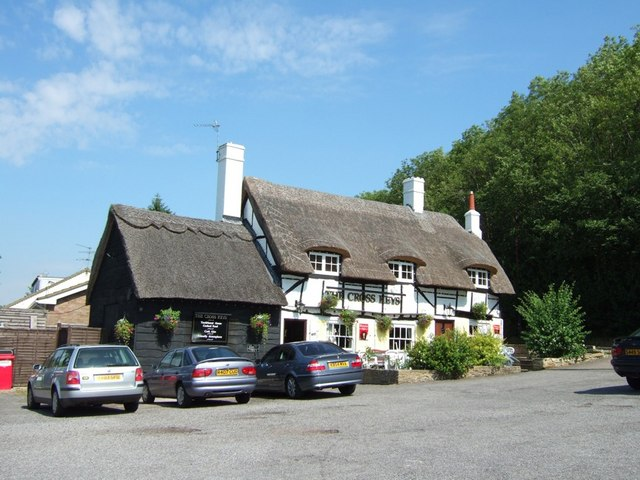 The Cross Keys, Totternhoe. A thatched country pub at the western end of this straggling village.